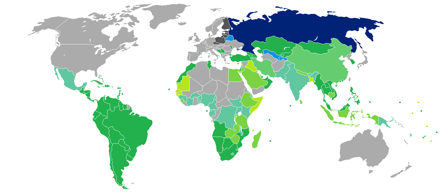 Visa regime for common Russian passport holders Russia Visa free with Internal passport Visa free (including tourist cards) Visa on arrival eVisa Visa available both on arrival or online Visa required prior to arrival